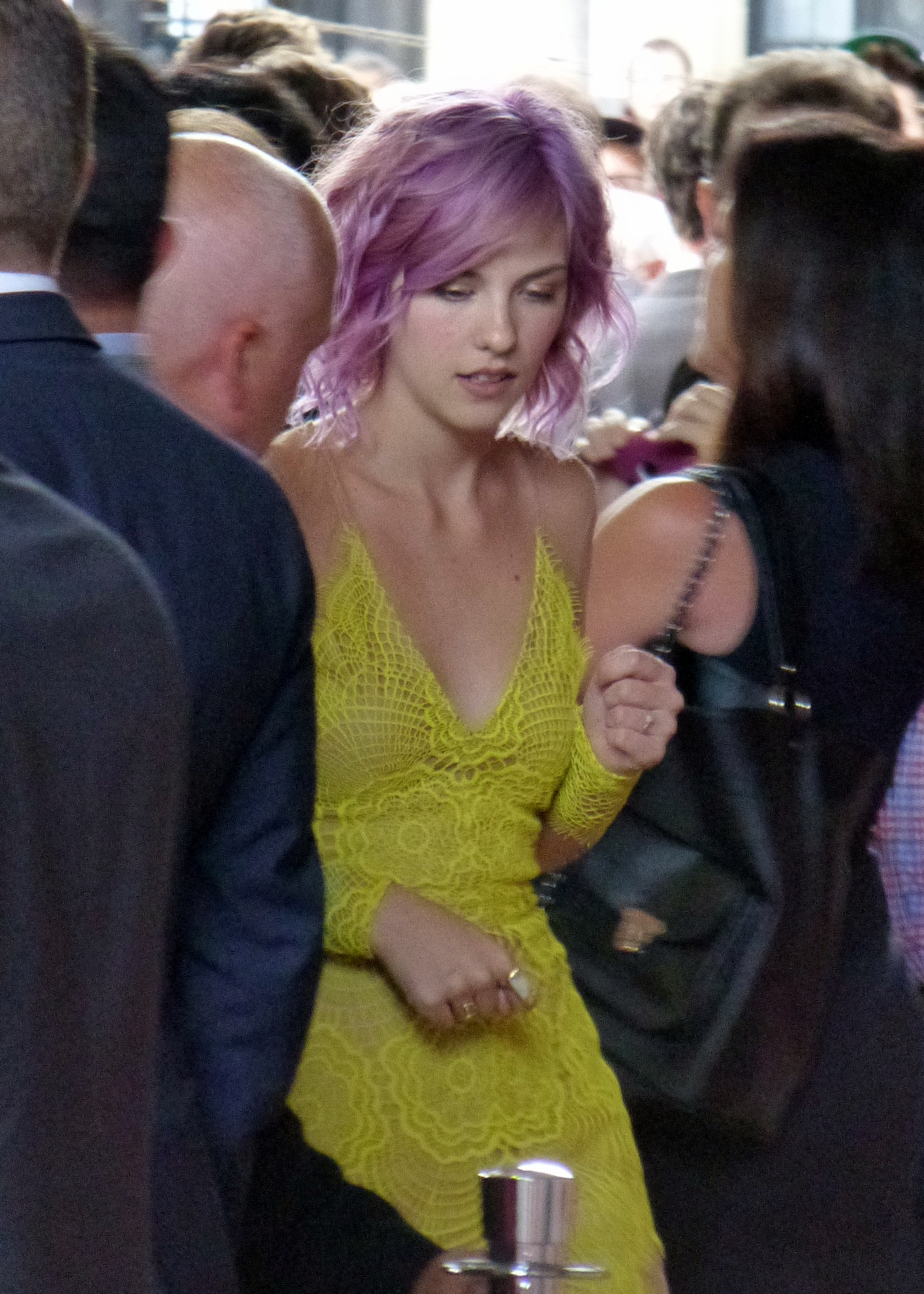 Olivia Crocicchia at the premiere of Men, Women, and Children, 2014 Toronto Film Festival